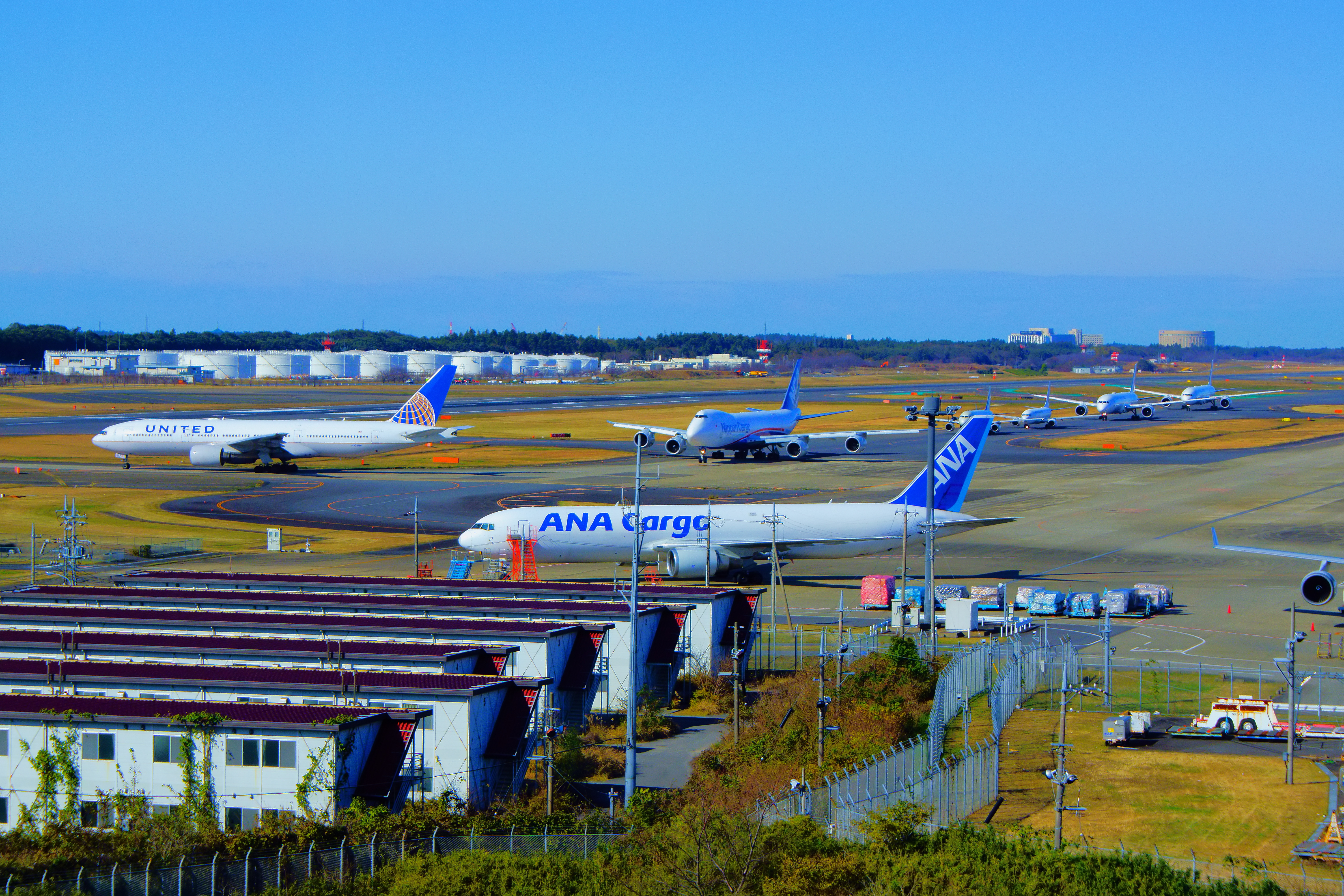 Narita Airport is crowded with many airplanes and queues beside the runway.